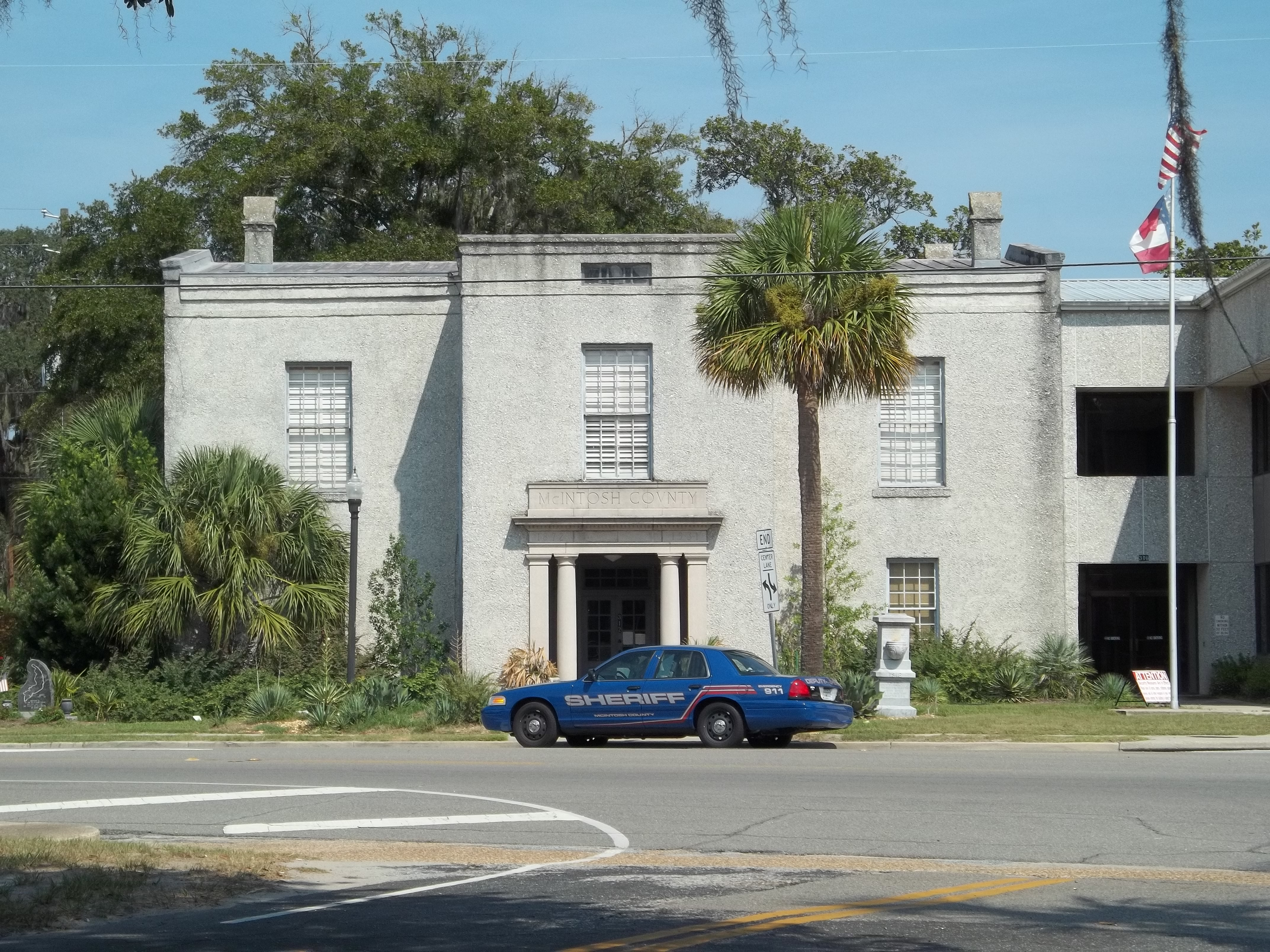 Darien, Georgia: West Darien Historic District: County courthouse, built in 1872.